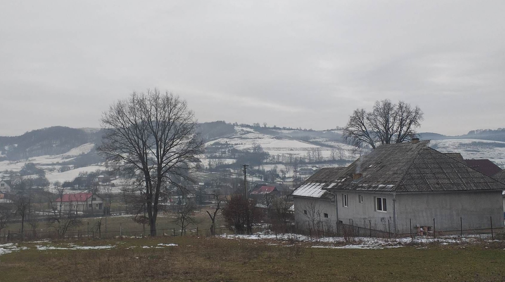 Dobricu Lăpușului, Maramureș County, Romania